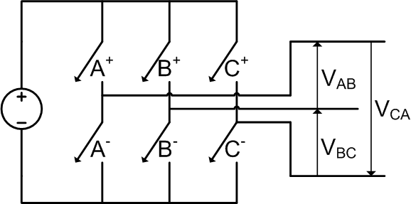 Diagram of a basic three leg converter